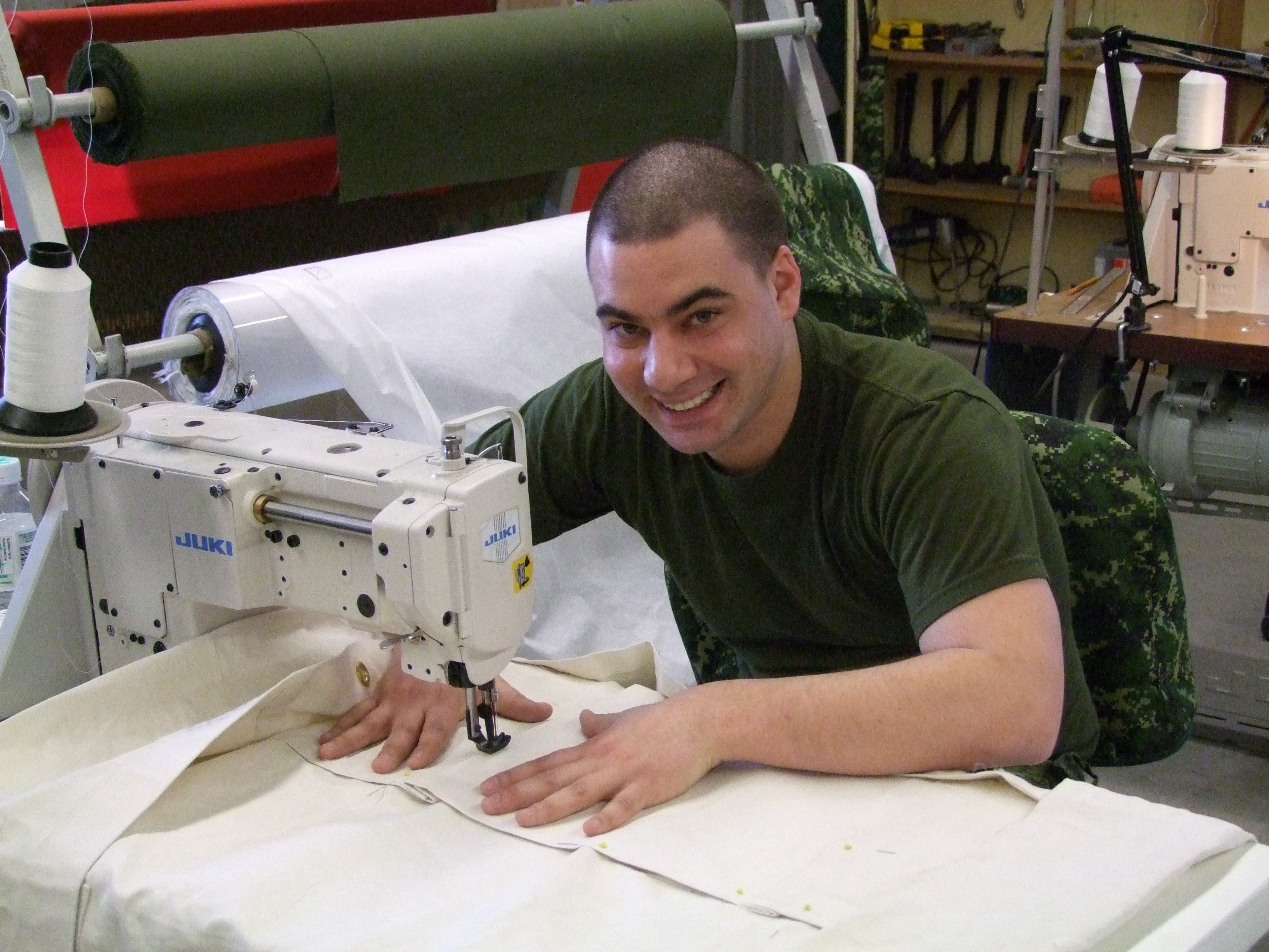 canadian army's material technician sewing